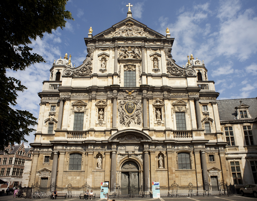 Baroque facade of Sint-Carolus-Borromeuskerk church — in Antwerp, Belgium.